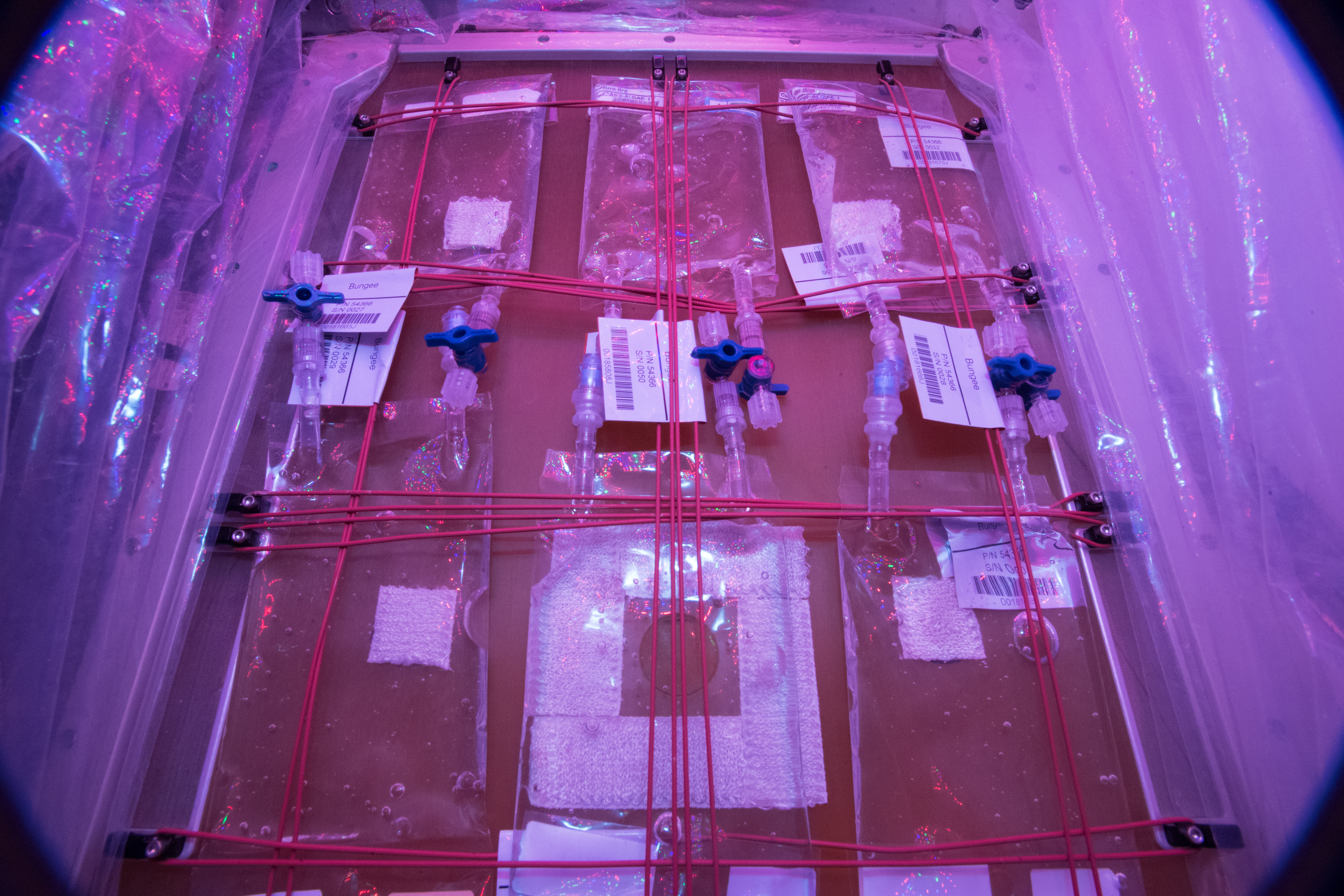 Understanding how to grow algae in space might be the key to a successful closed life support system in future spacecraft. And it helps us to better understand Earth's eco system, too. Zu verstehen, wie man Algen im Weltraum züchten kann, könnte der Schlüssel zu einem funktionierenden geschlossenen Lebenserhaltungssystem in zukünftigen Raumschiffen sein. Und noch dazu hilft es uns, das Ökosystem unserer Erde besser zu verstehen. ID: 362D5786 Credit: ESA/A.Gerst, CC BY-SA 3.0 IGO